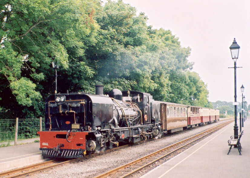 WHR train with Garratt engine 143 at Dinas station